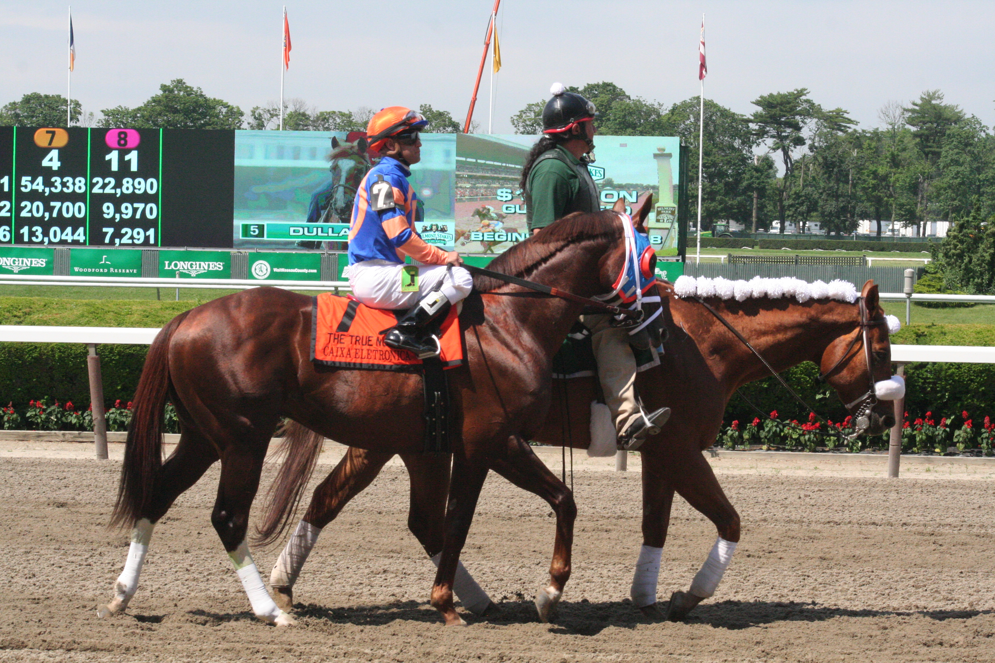 Caixa Eletronica is led to post before winning the True North Handicap at Belmont Park, June 9, 2012.